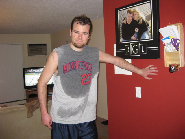 A man perspires through his shirt after an intense workout.